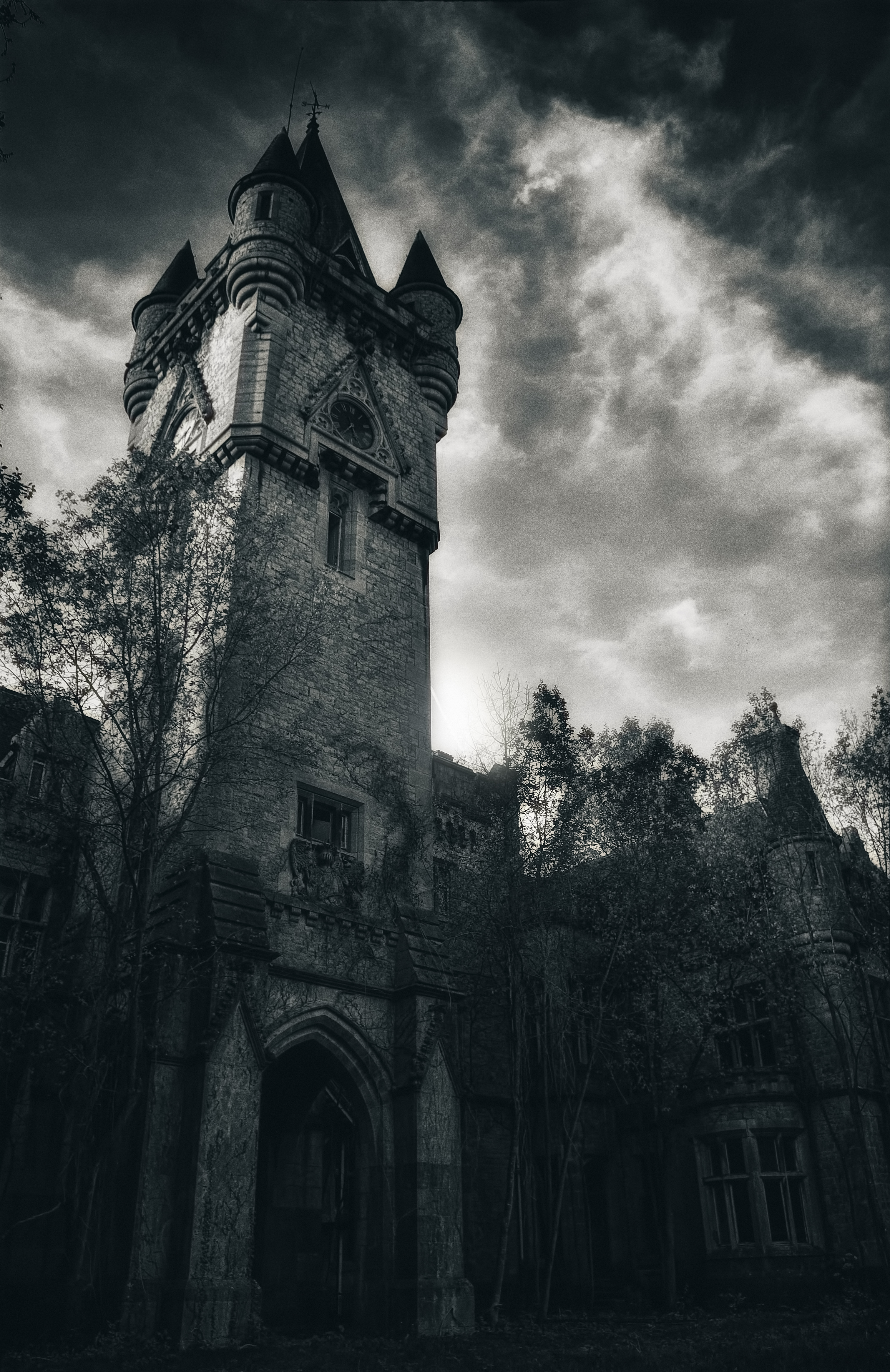 Château de Noisy (Belgique, clock tower.